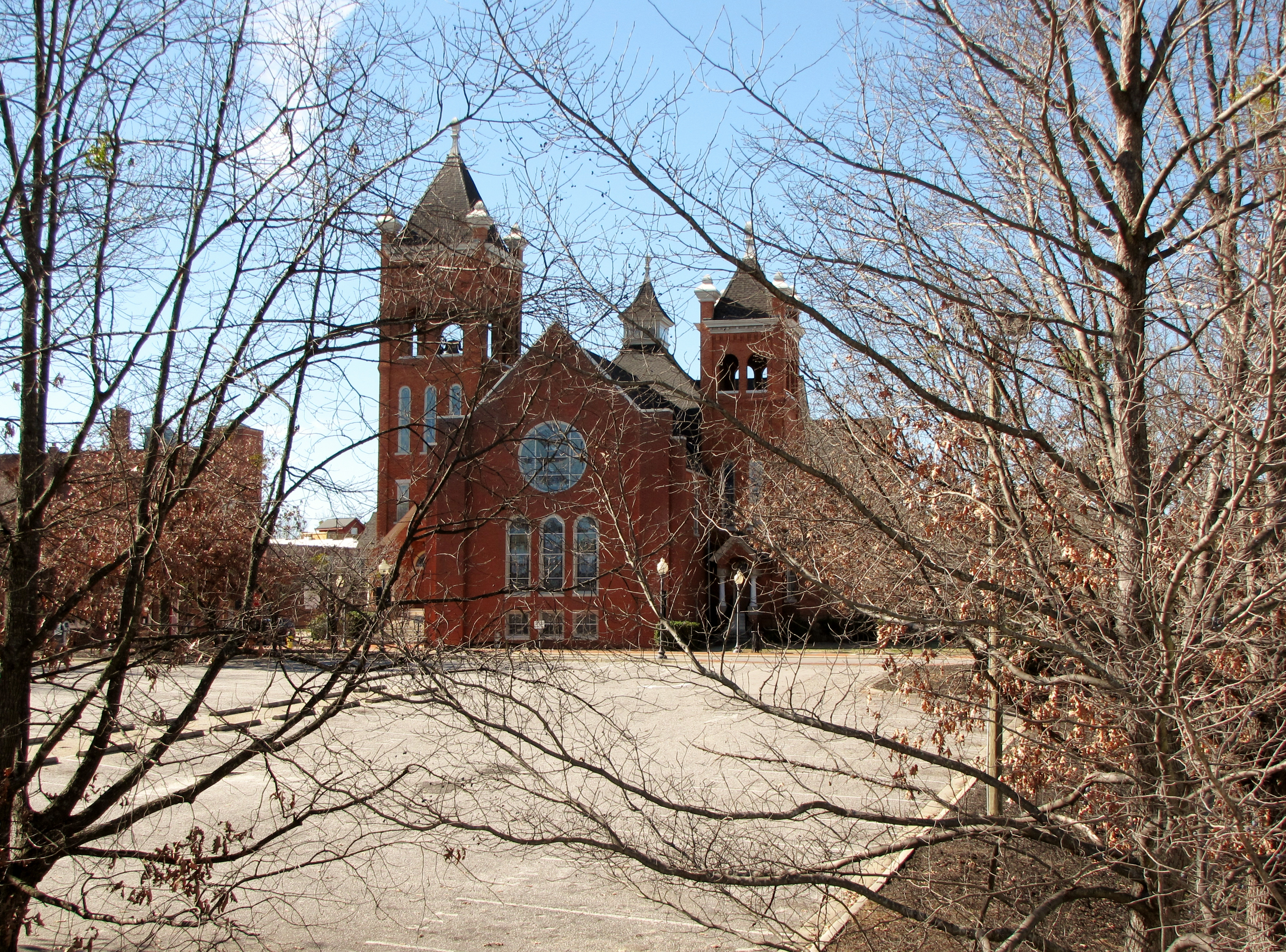 First Baptist Church of Fayetteville, NC at the intersection of Old and Anderson Streets in downtown Fayetteville. The architecture fits in with the rest of the churches in the area, but is unusual for a Southern Baptist Church in North Carolina.